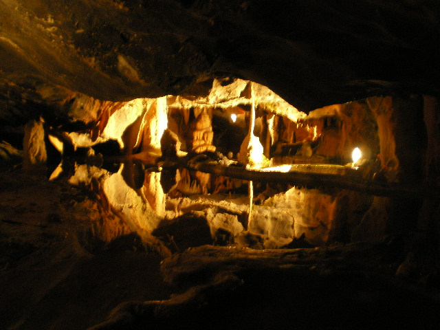 Interior of Cox's Cave in Cheddar Gorge, showing stalactites and stalagmites in a reflecting pool.